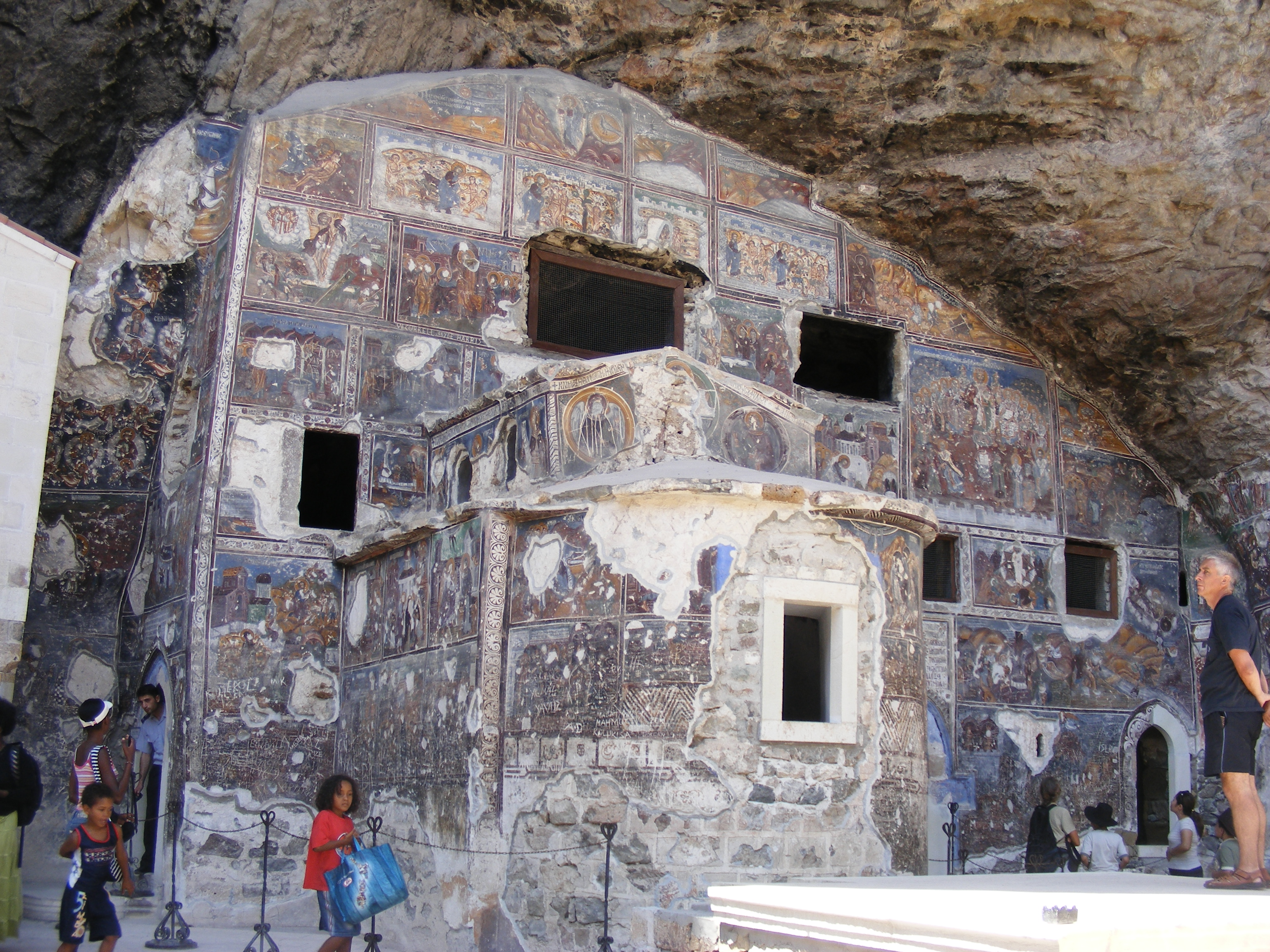 Rock Church, Sumela monastery